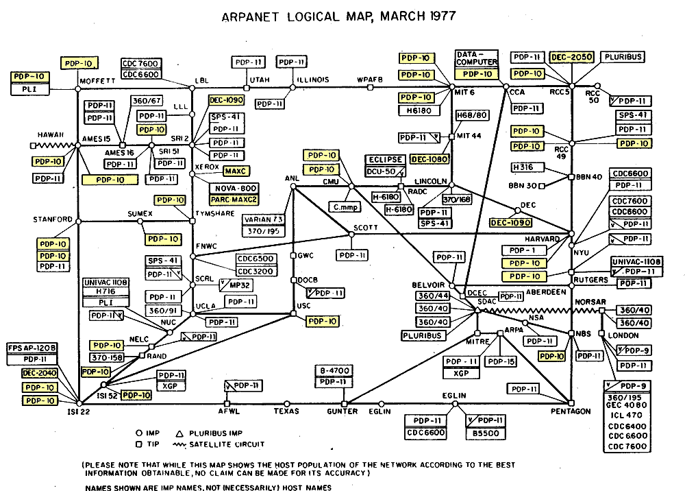 ARPANET logical map circa 1977, with PDP-10 systems highlighted.